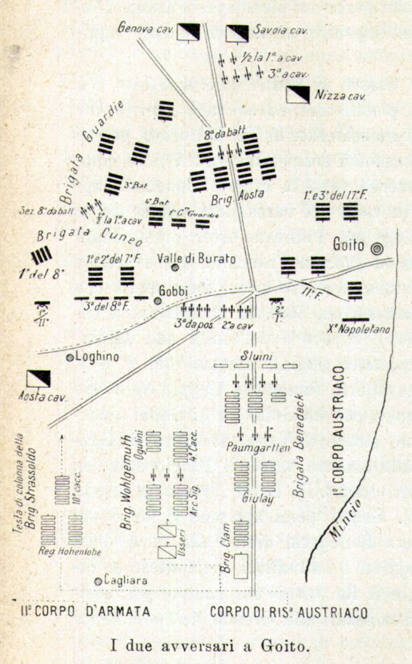 Map of Battle of Goito, Italy (1848)